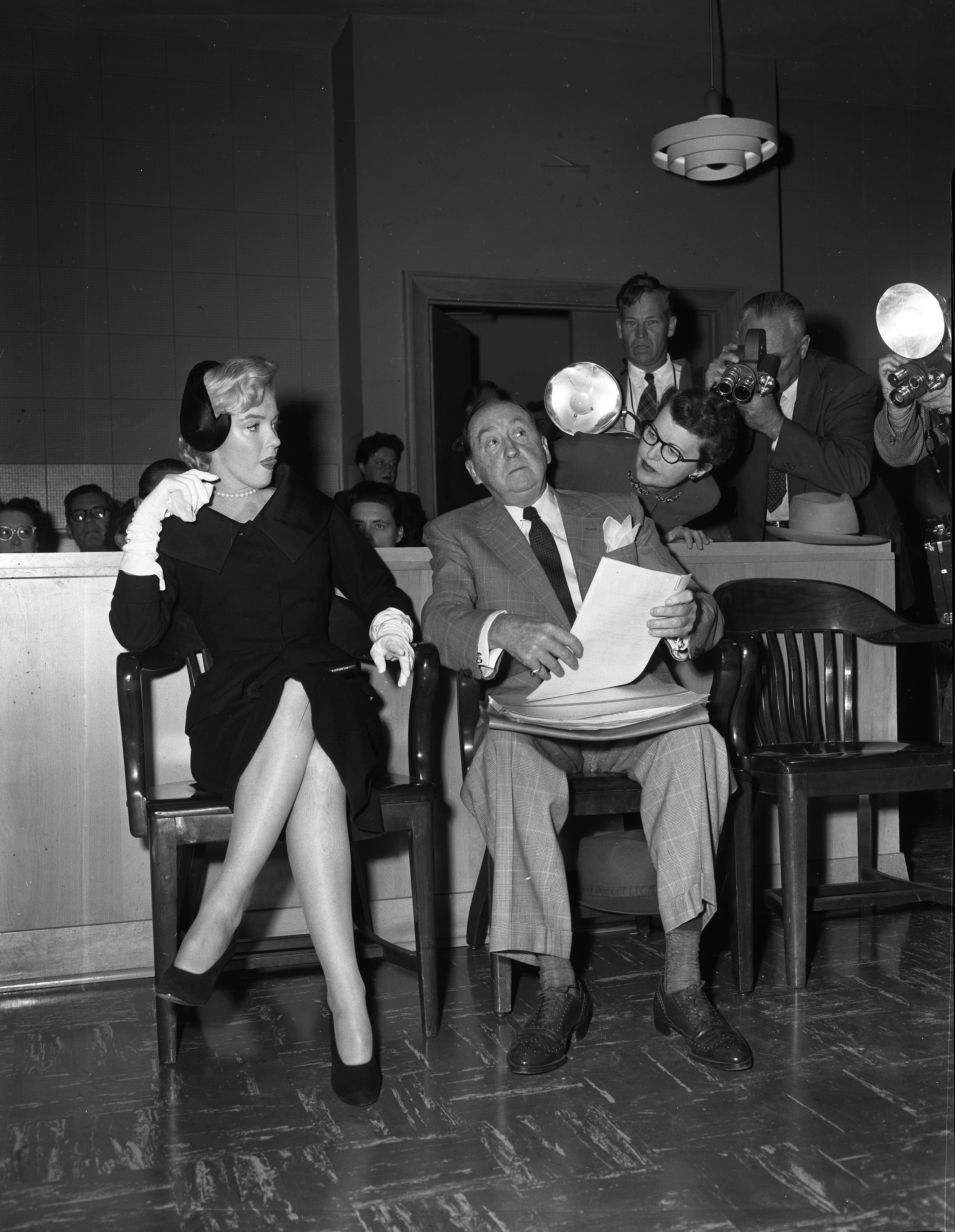 Actress Marilyn Monroe sitting in courtroom with her attorney Jerry Giesler during divorce from Joe DiMaggio